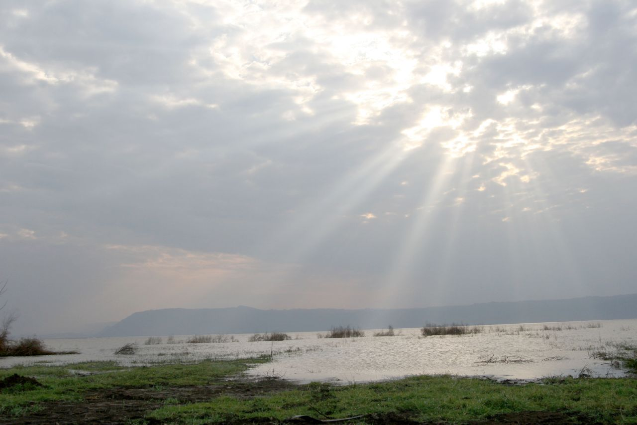 On the shores of Lake Eyasi, Tanzania